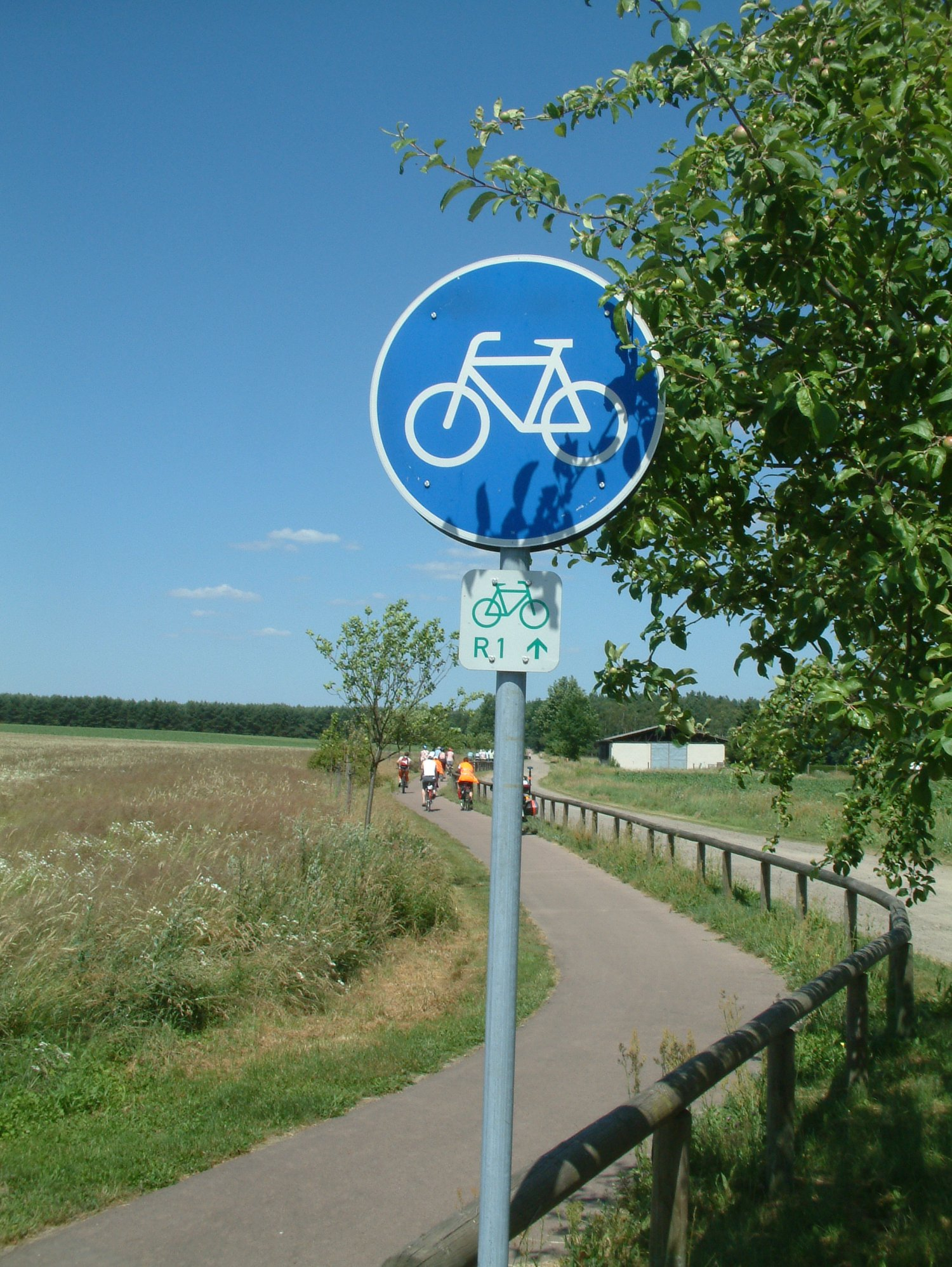 European cycling route Euroroute R1 near Rabenstein/Fläming, Germany